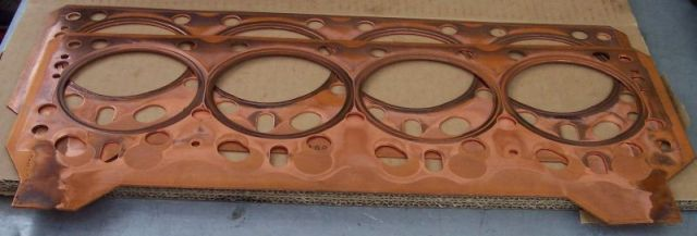 Zylinderkopfdichtung / cylinder-head gasket